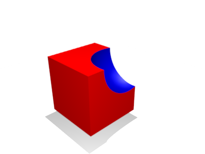 A Boolean Difference operation on a cube and a sphere. Modeled and Rendered in Blender. Made by Captain Sprite 22:14, 6 August 2006 (UTC).